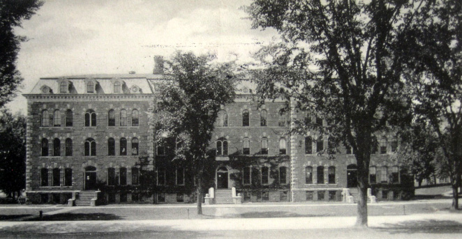 Description: White Hall, Cornell University. Date: Rotograph postcard postmarked 1906 Ithaca, NY.